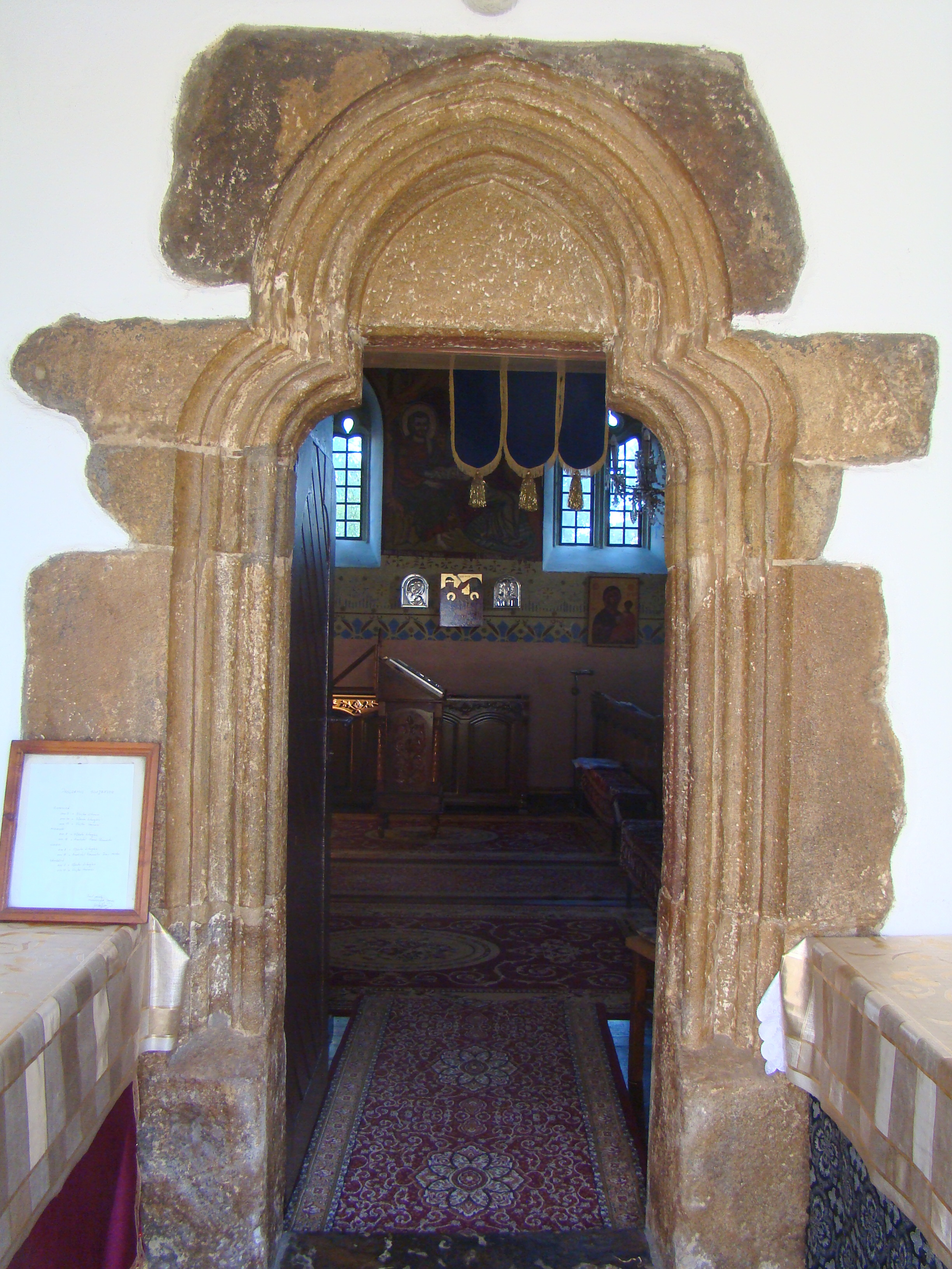 Church of the Annunciation in Cepari, Bistrița-Năsăud county, Romania